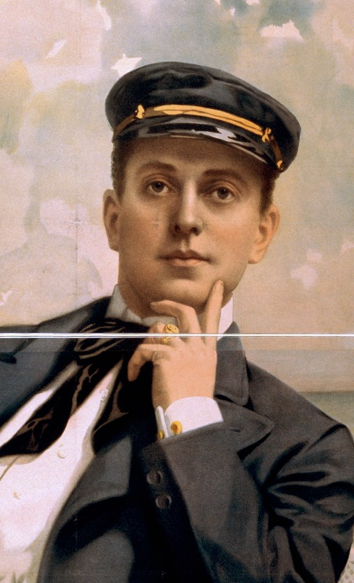 Actor James Neill